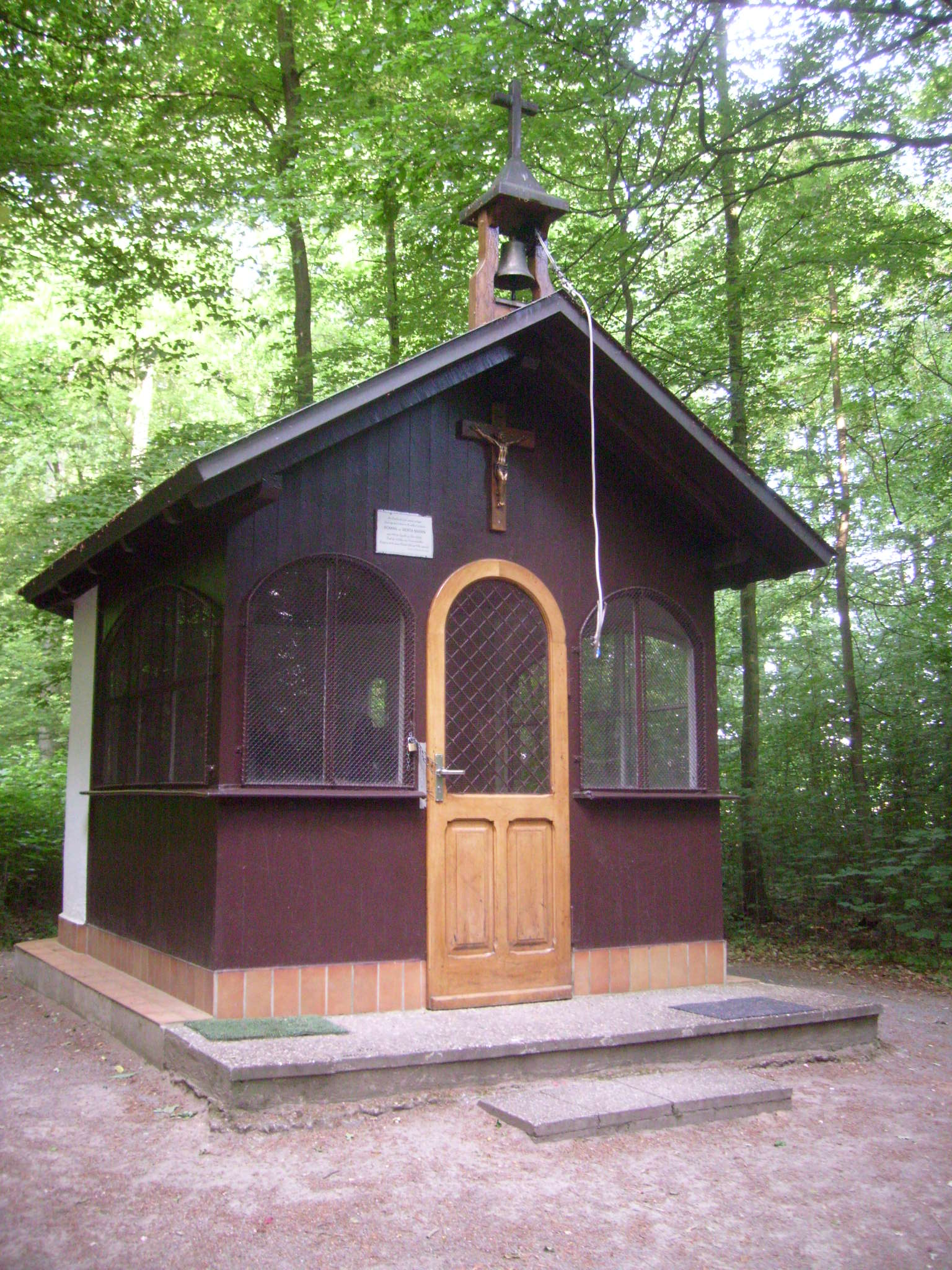 Kocherwald chapel in Bad Friedrichshall